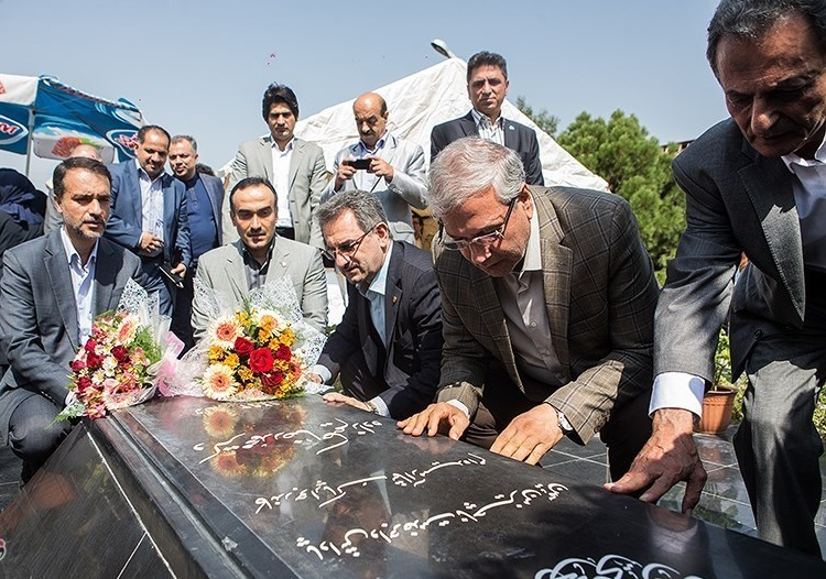 Ali Rabiei at the Dr Hakimzadeh grave